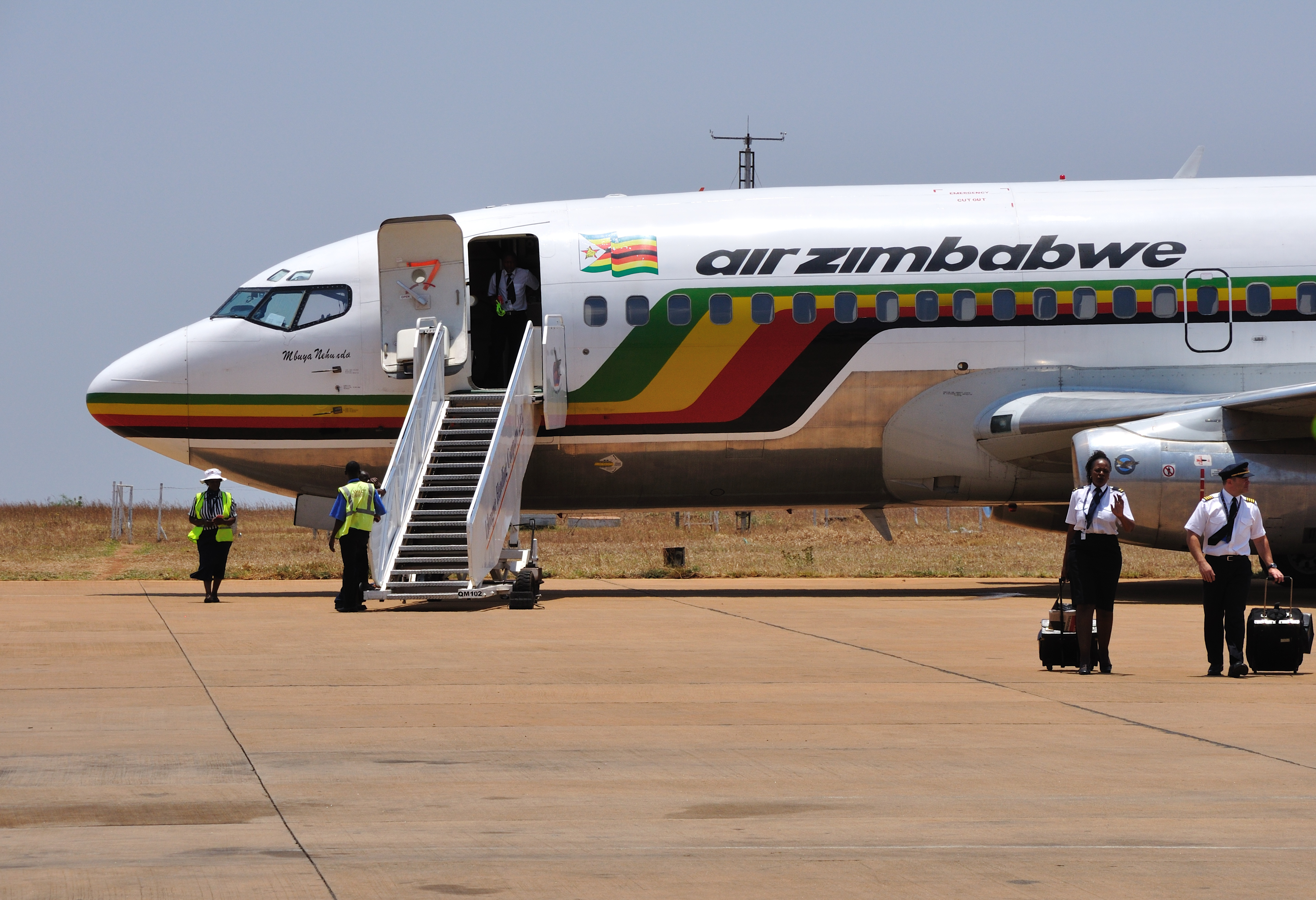 Malawi, Air Zimbabwe's Boeing 737-200 Z-WPA carried president Mugabe to Blantyre for the opening of the new inland port.